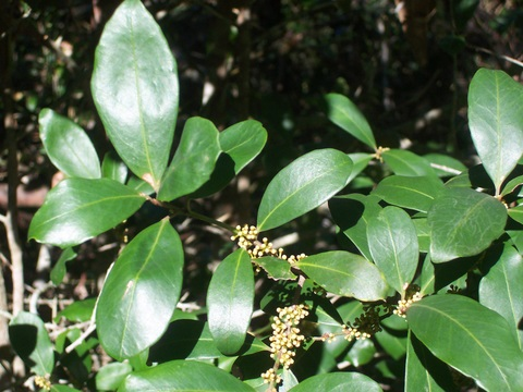 Myrsine variabilis at Wyrrabalong_National_Park, Australia